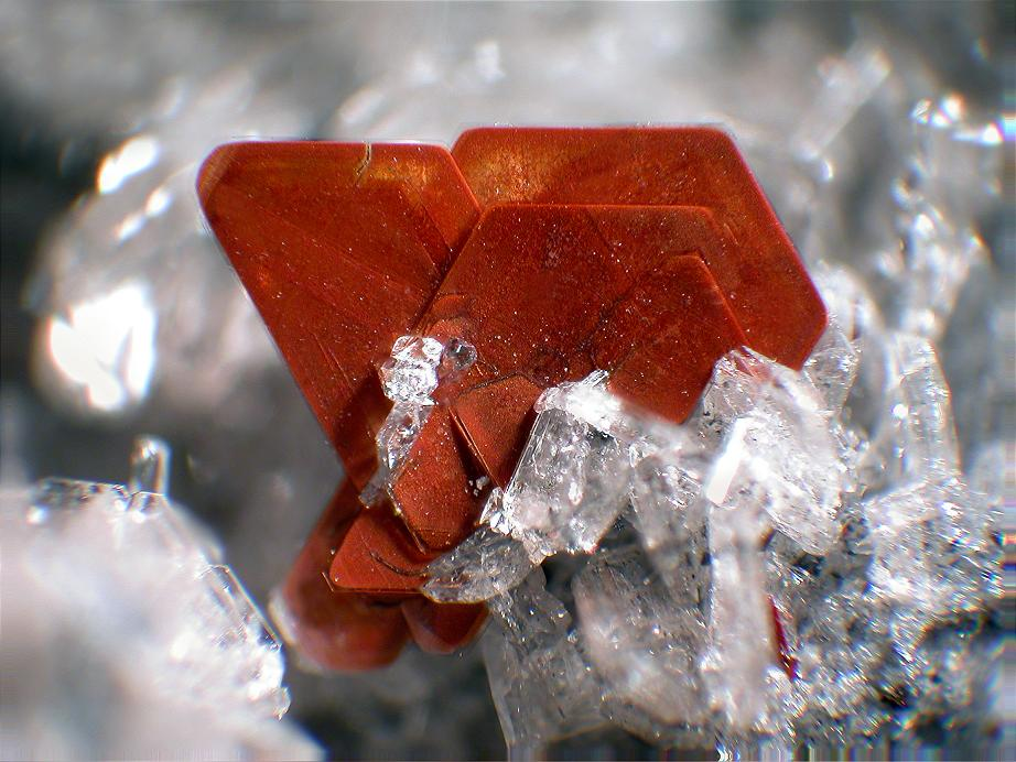 A big Biotite aggregate (2.5 mm wide) in combination with Sanidine and Nepheline - Locality: Wannenköpfe, Ochtendung, Eifel region, Germany